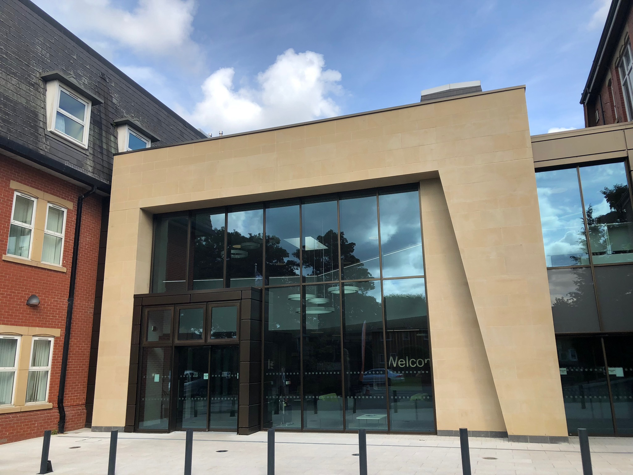 Image showing the new reception building and main entrance of Holy Cross College.